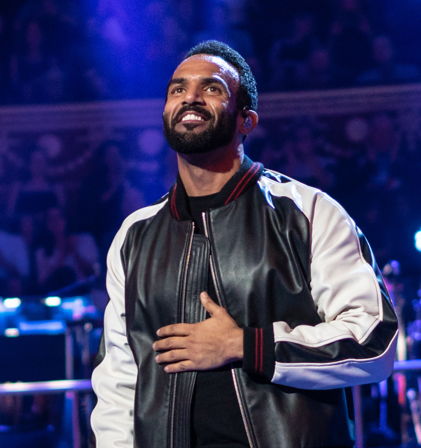 Craig David at The Queen's Birthday Party